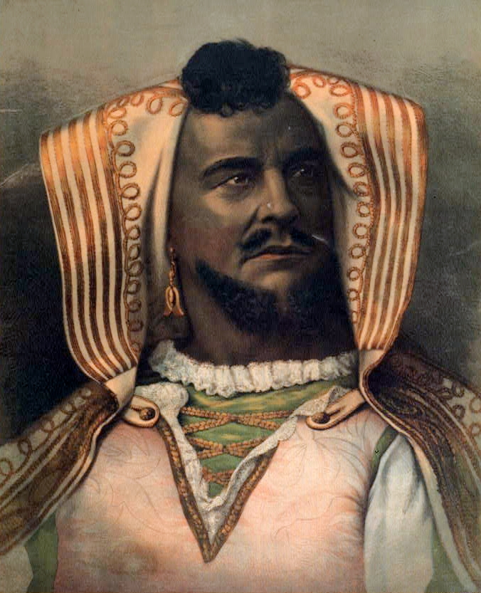 American actor John Edward McCullough (1837-1885) as Othello? Colour lithograph.